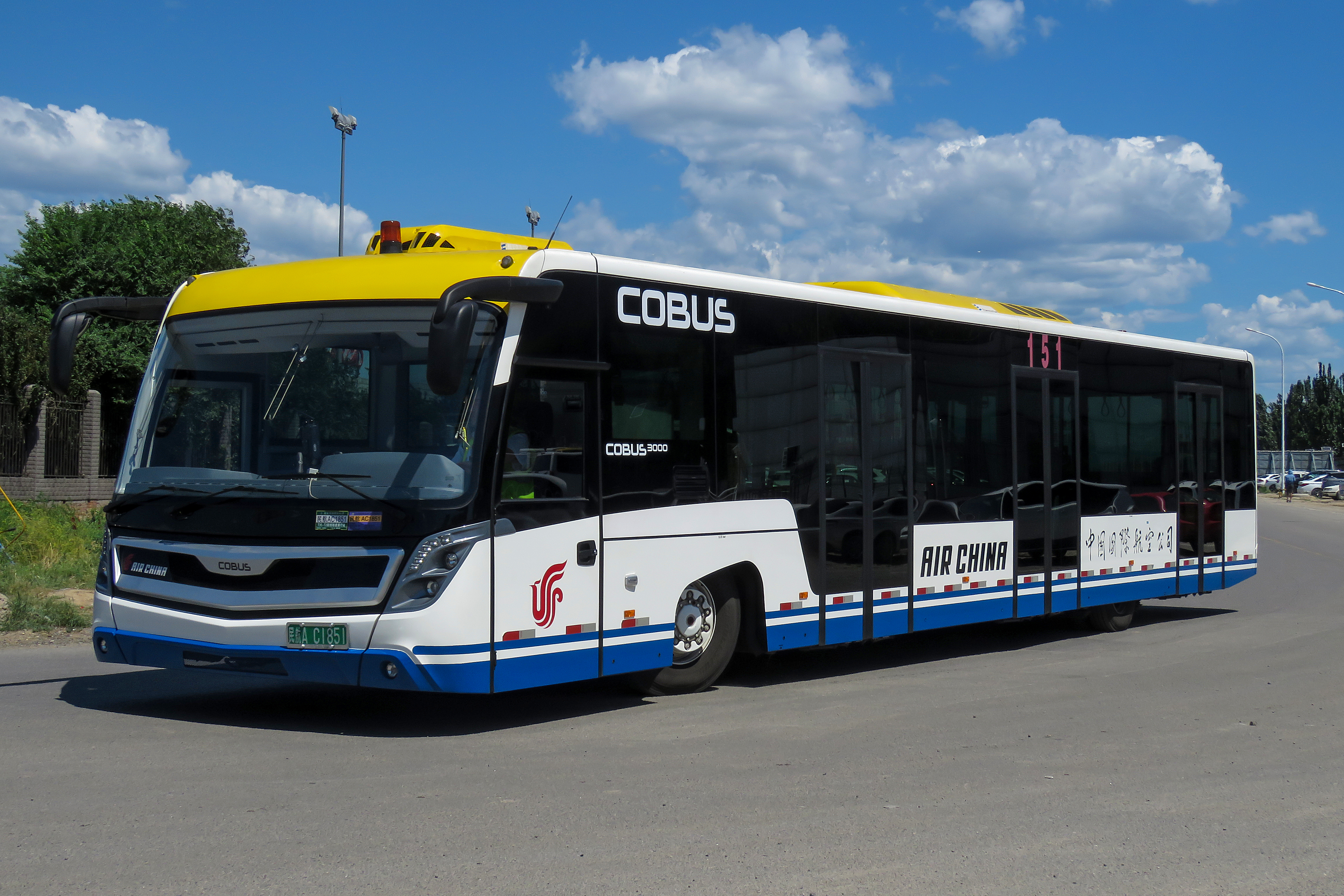 151 is a Cobus 3000 with new bodywork.